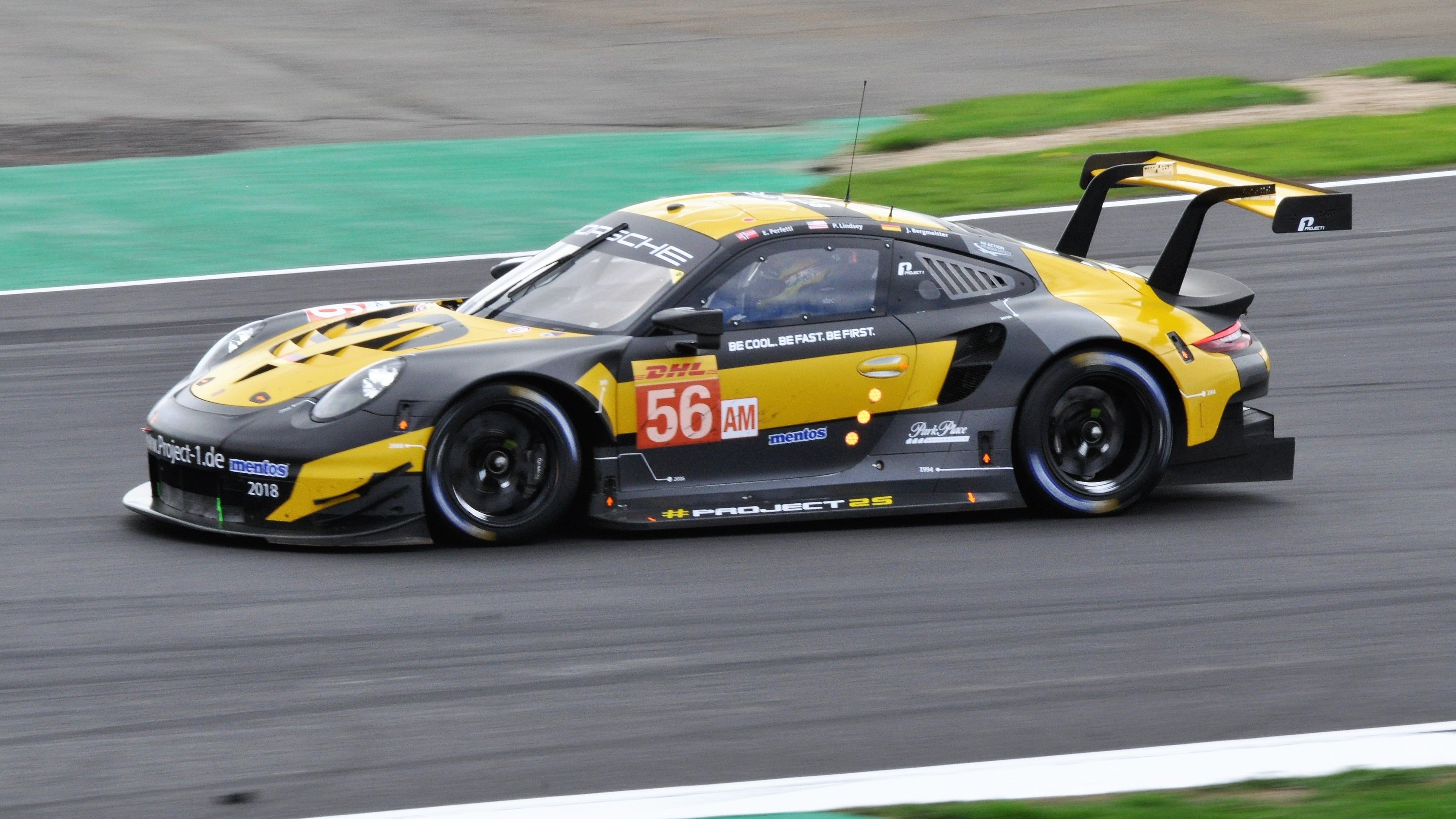 Norwegian driver Egidio Perfetti turns the number 56 Team Project 1-entered Porsche 911 RSR car into Village corner, during the 2018 6 Hours of Silverstone race. Perfetti and his co-drivers, Patrick Lindsey and Jörg Bergmeister, finished third in the LMGTE Am class.